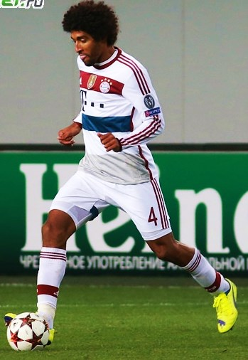 Dante Bonfim Costa Santos